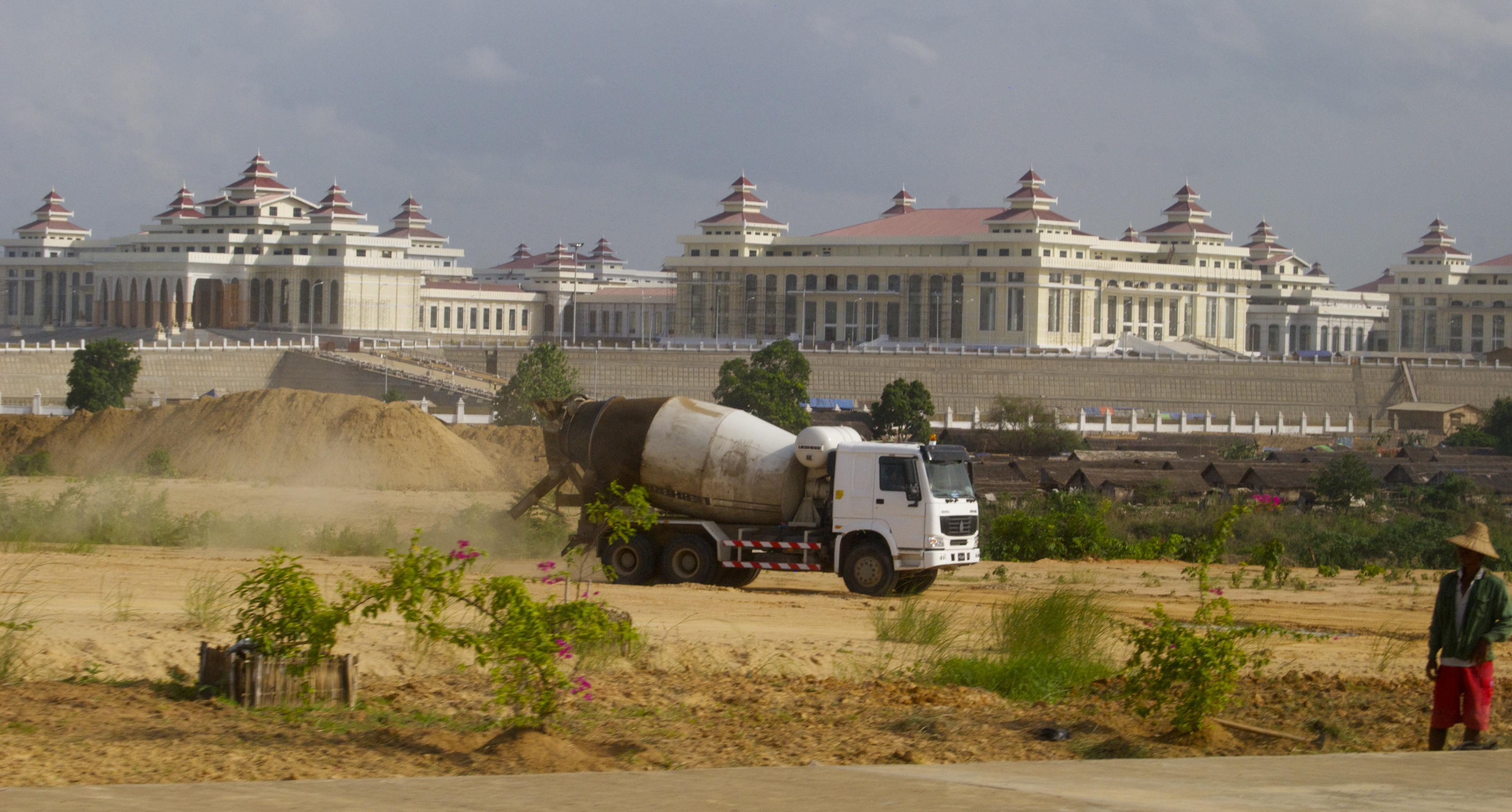 National parliament of Burma/Myanmar; The vast parliament complex is located on the outskirts of Naypyidaw, the capital of Burma/Myanmar. Photo taken on June 1, 2010, when work on the complex was still underway.